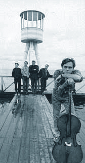 Photo of the band Playhouse at Bellevue beach taken by GaffapeadiaN in the autumn 1995. Feel free to use it.